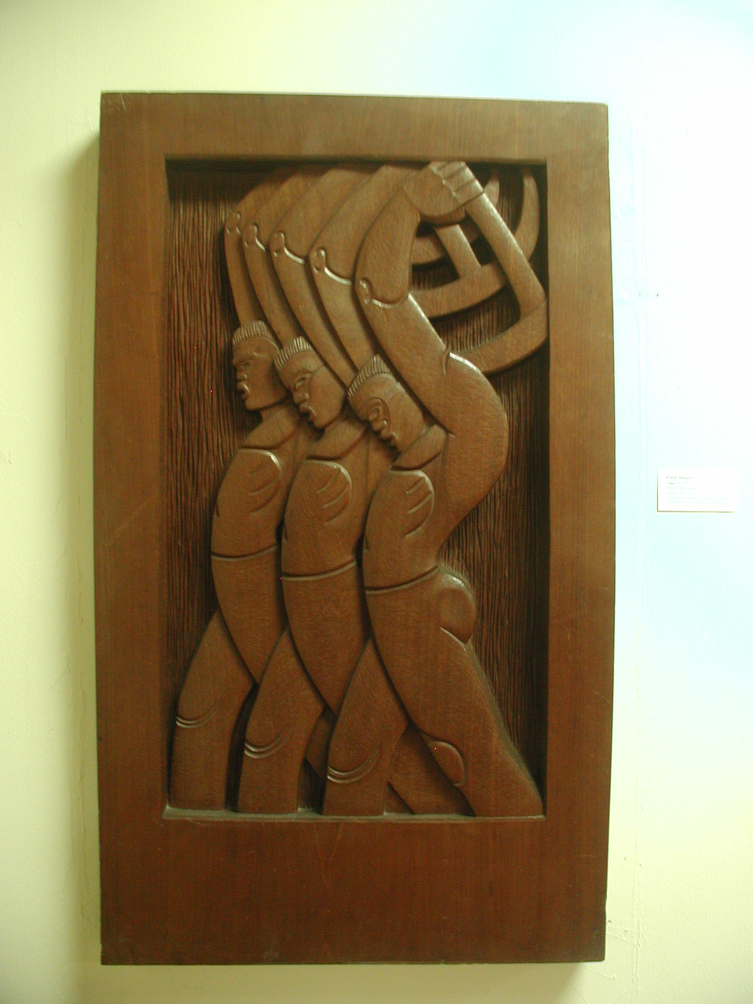 National Gallery of Jamaica Edna Manley was the daughter of an English father and a Jamaican mother. After getting married in Jamaica they returned to England, where Edna was born. As a young woman, she took private art classes with the sculptor Maurice Harding and studied at various art institutions in London, for instance St Martin's School of Art. In 1922, Enda and her Jamaican husband Michael Manley moved to Jamaica, where she began a long and successful career as a sculptor, painter and art teacher.